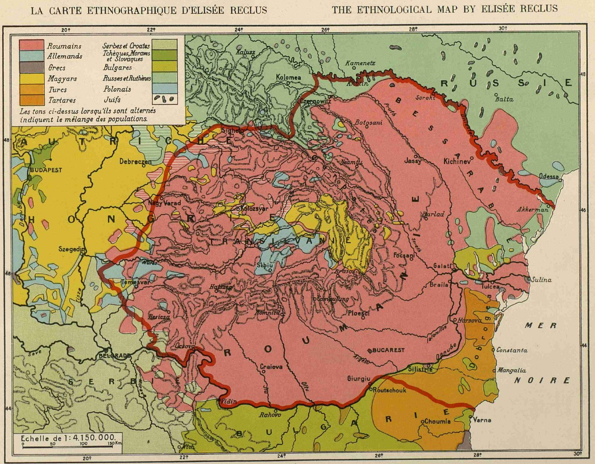 Ethnographical map of the Romanian population in the 1870s by Élisée Reclus and the borders of the Kingdom of Romania in 1919-1940.